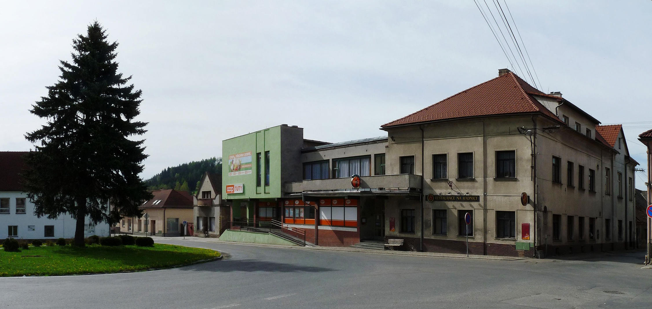 Square in the market town of Kolinec, Klatovy District, Czech Republic. There used to be a synagogue where now is the supermarket.